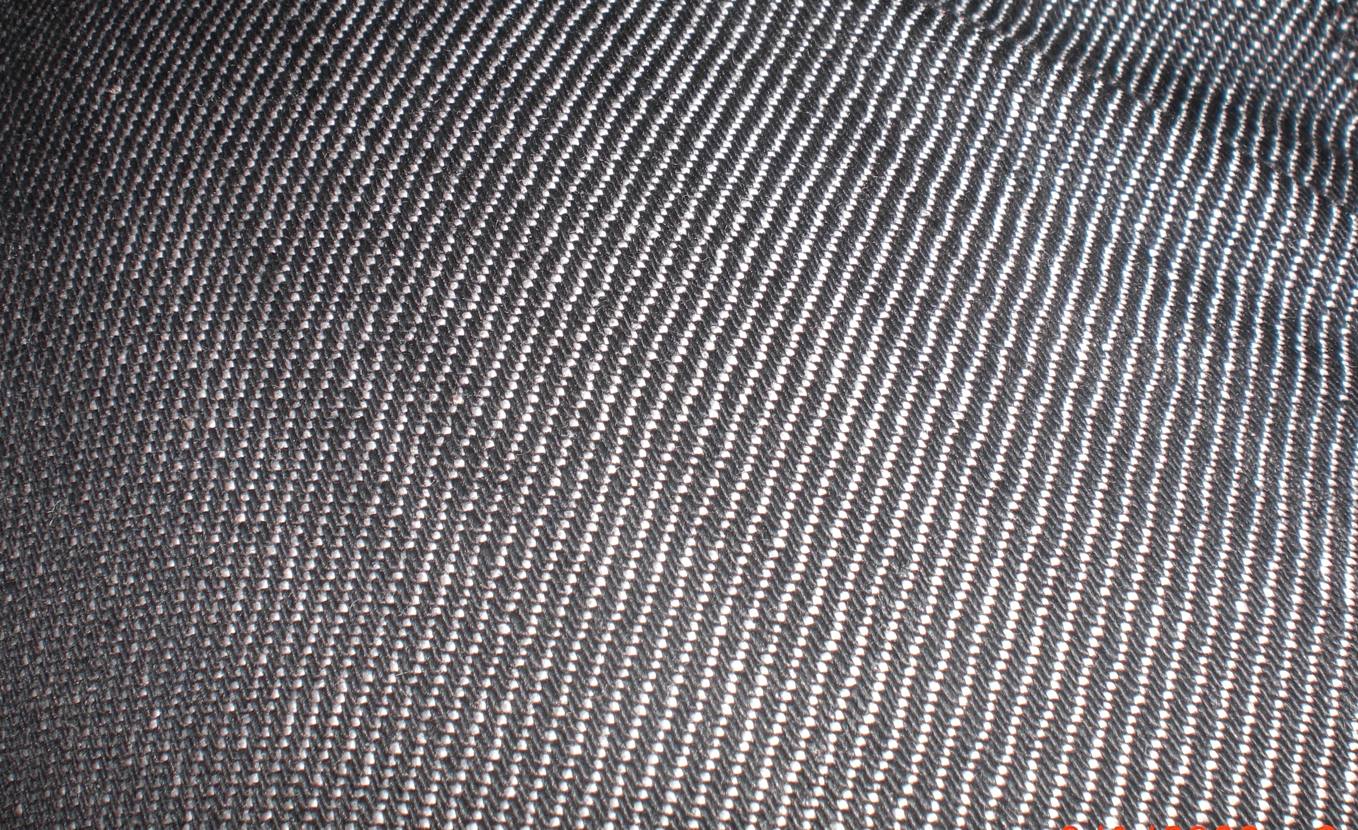 Close-up of black denim